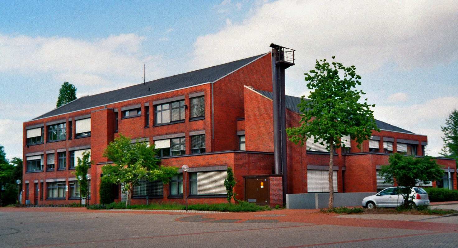 Town hall of Recke, North Rhine-Westphalia, Germany.